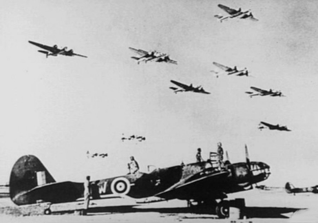 A Royal Air Force Martin Maryland bombers in North Africa. Original caption